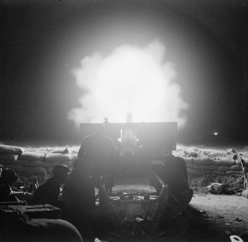 The Campaign in North Africa 1940-1943 A 25-pdr gun firing during the British night artillery barrage which opened Second Battle of El Alamein, 23 October 1942.